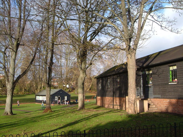 Huts in Belmont Park, Exeter "The last remaining huts to be built on the park in 1939 are today used as a Community Centre and the Play Training Resource Centre" . Seen from Clifton Hill.